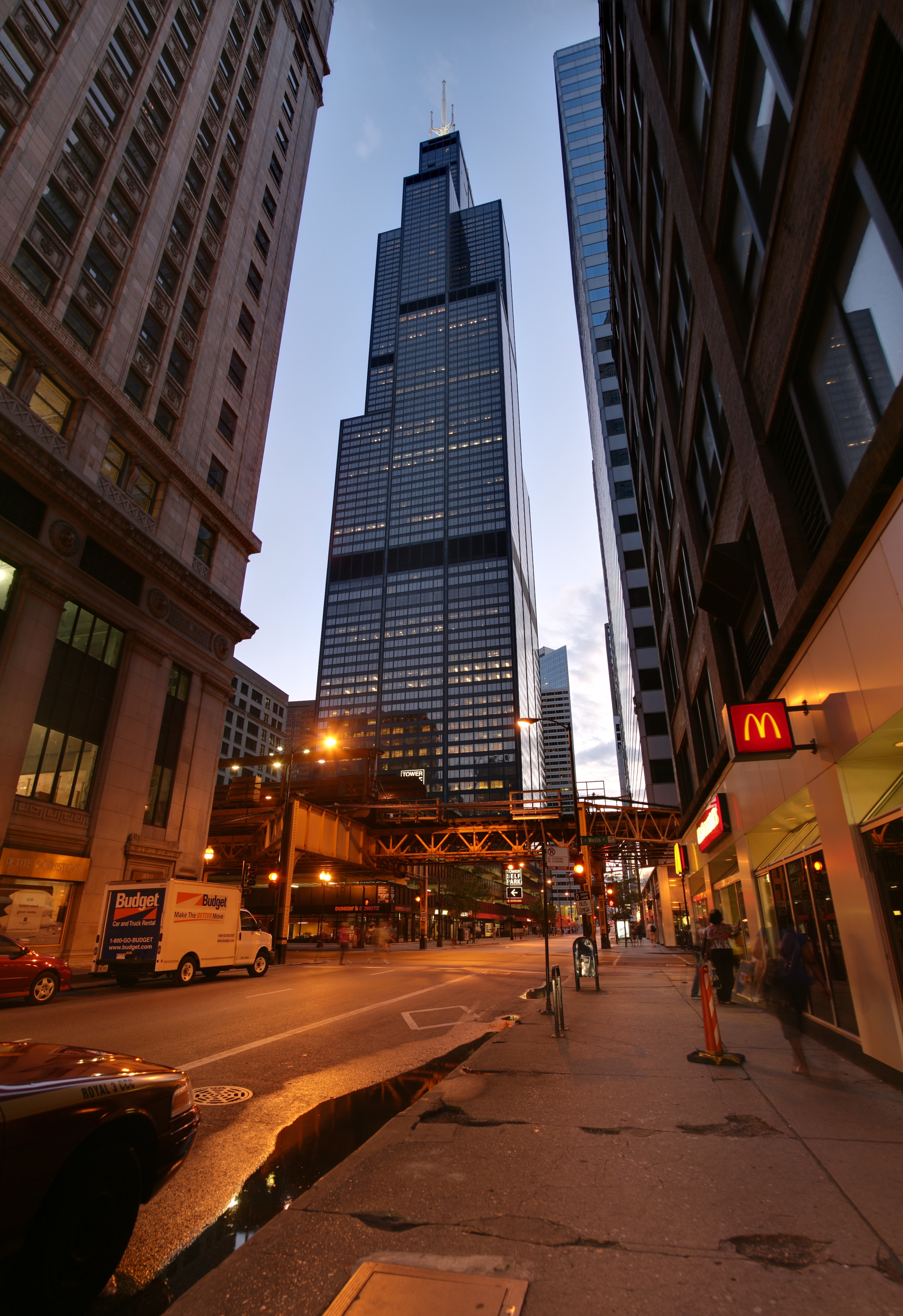 Willis Tower at night in Chicago from the corner of adams and Wells This image was created with Hugin.